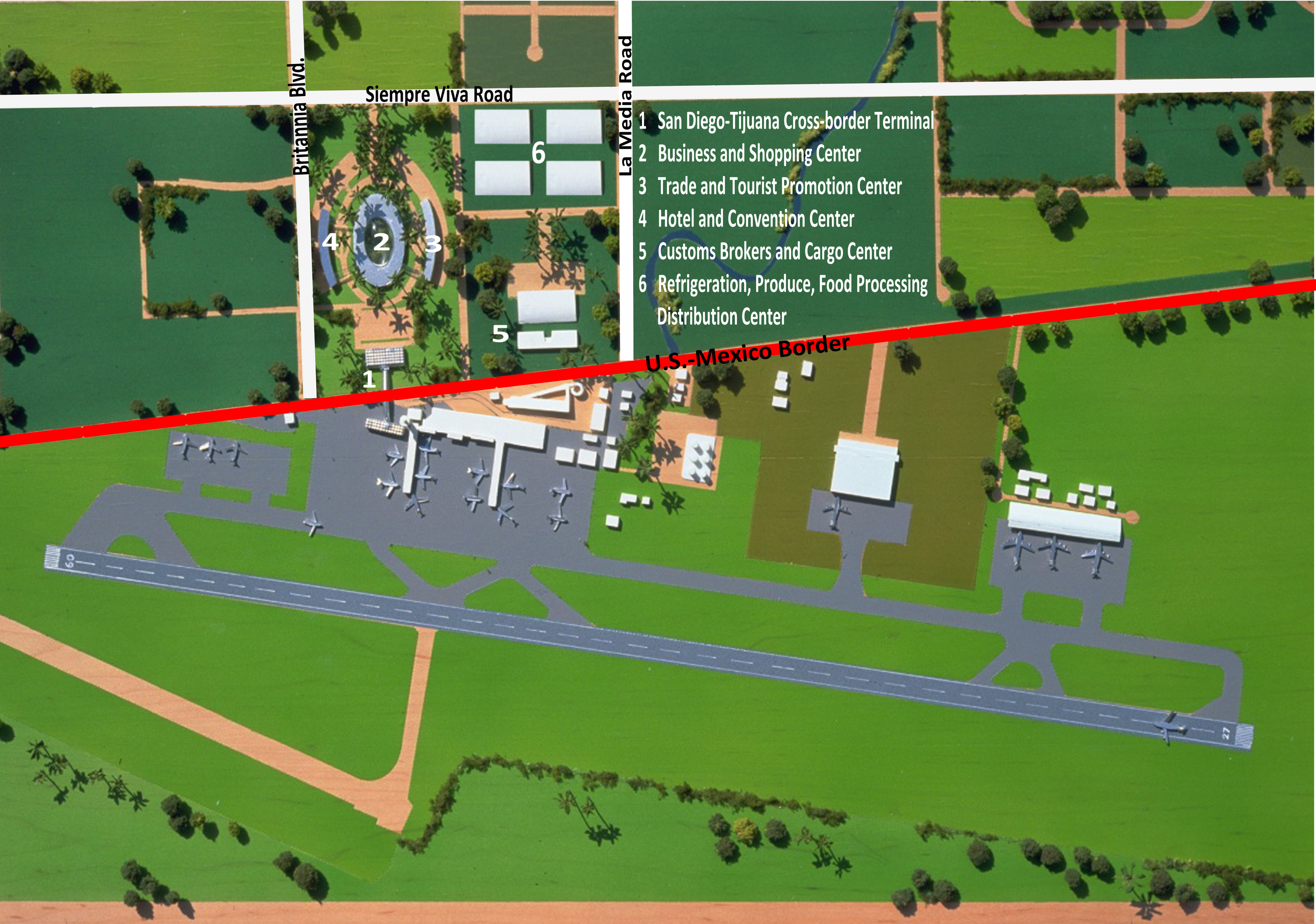 Tijuana cross-border terminal concept with commercial components to further cross-border trade and services